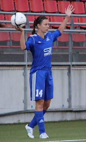 Aljona playing for Pärnu JK against PAOK FC in 2013.jpg